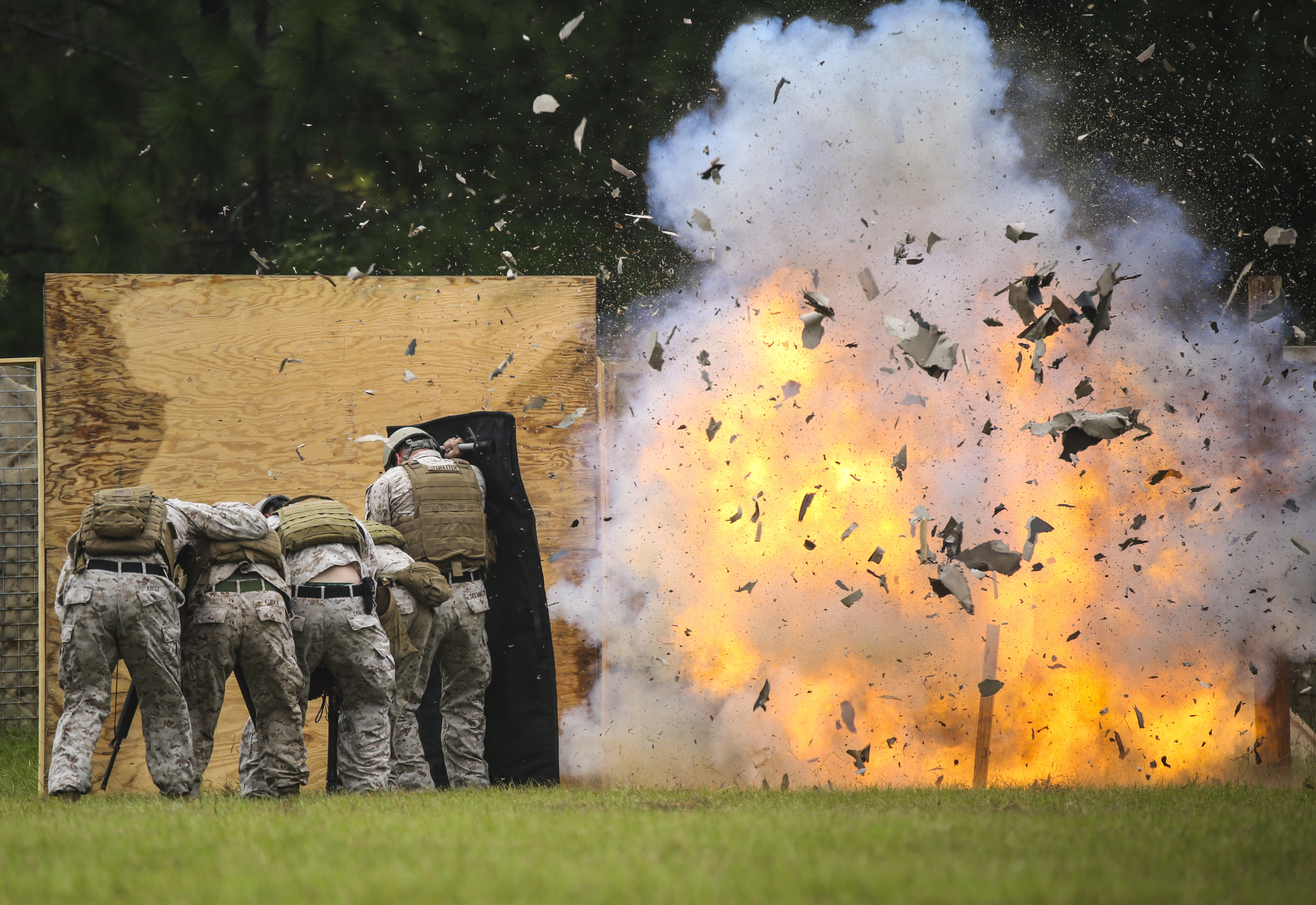 Combat engineers with 2nd Combat Engineer Battalion, 2nd Marine Division set off a wall charge as part of a demonstration for the participants of the battalion's Jane Wayne Day aboard Marine Corps Base Camp Lejeune, N.C., Sept. 25, 2014. The unit hosted the event for the Marines’ family members, who were able to gain a glimpse into the day-to-day life of their loved ones serving with 2nd CEB. (U.S. Marine Corps photo by Cpl. Andy J. Orozco/Released)